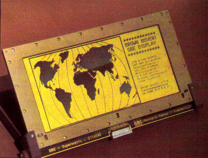 Super-Twisted Nematic LCD matrix display patented by Brown Boveri & Cie, Switzerland, picture of prototype 1984